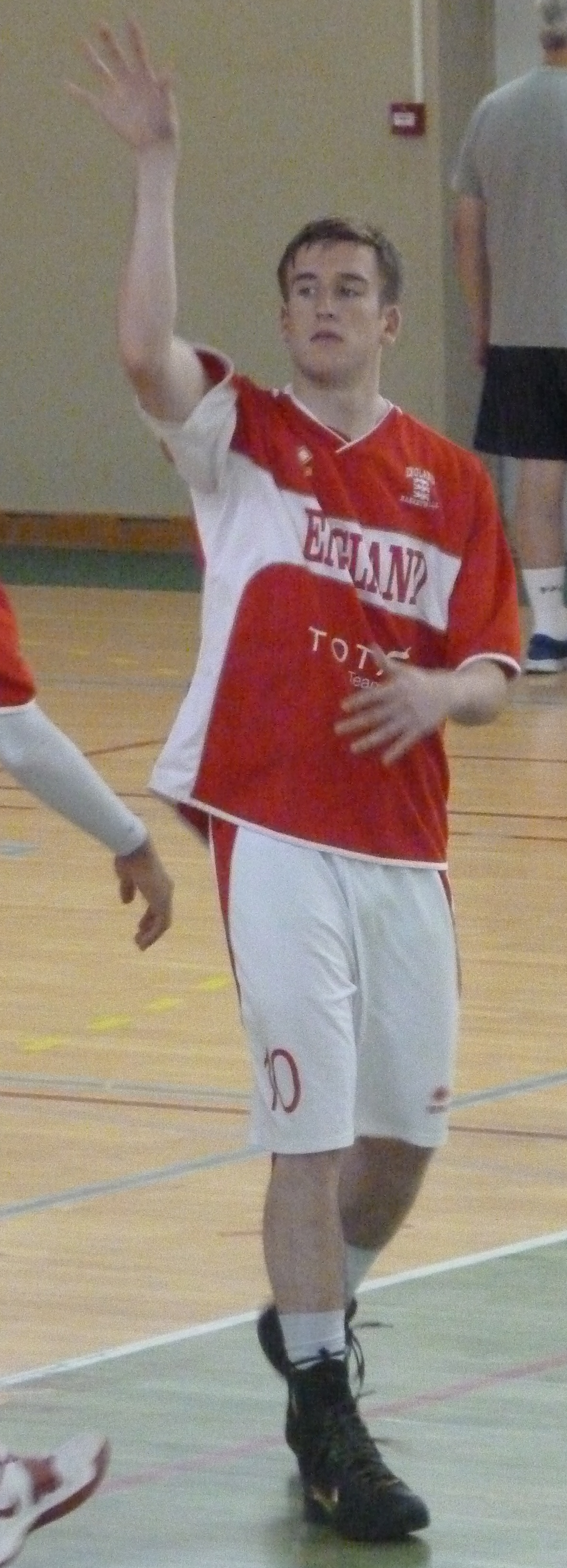 English basketball player Marko Backovic at the international U16 tournament in Riom, France.